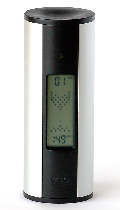 This image shows a digital egg timer.